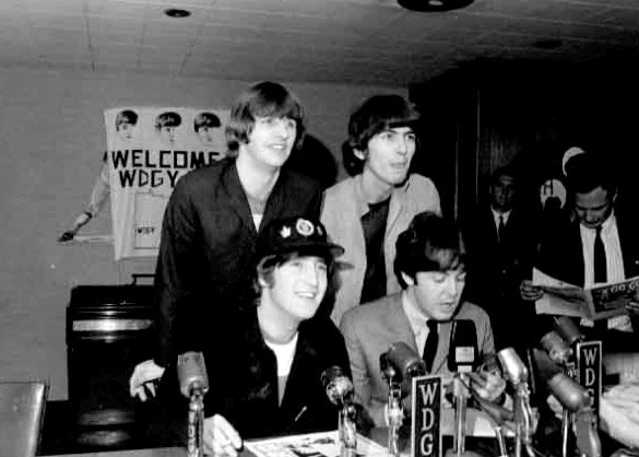 Featured on the Minnesota Historical Society’s Collections Up Close blog. Photo of a Beatles press conference at Minnesota's Metropolitan Stadium in 1965.